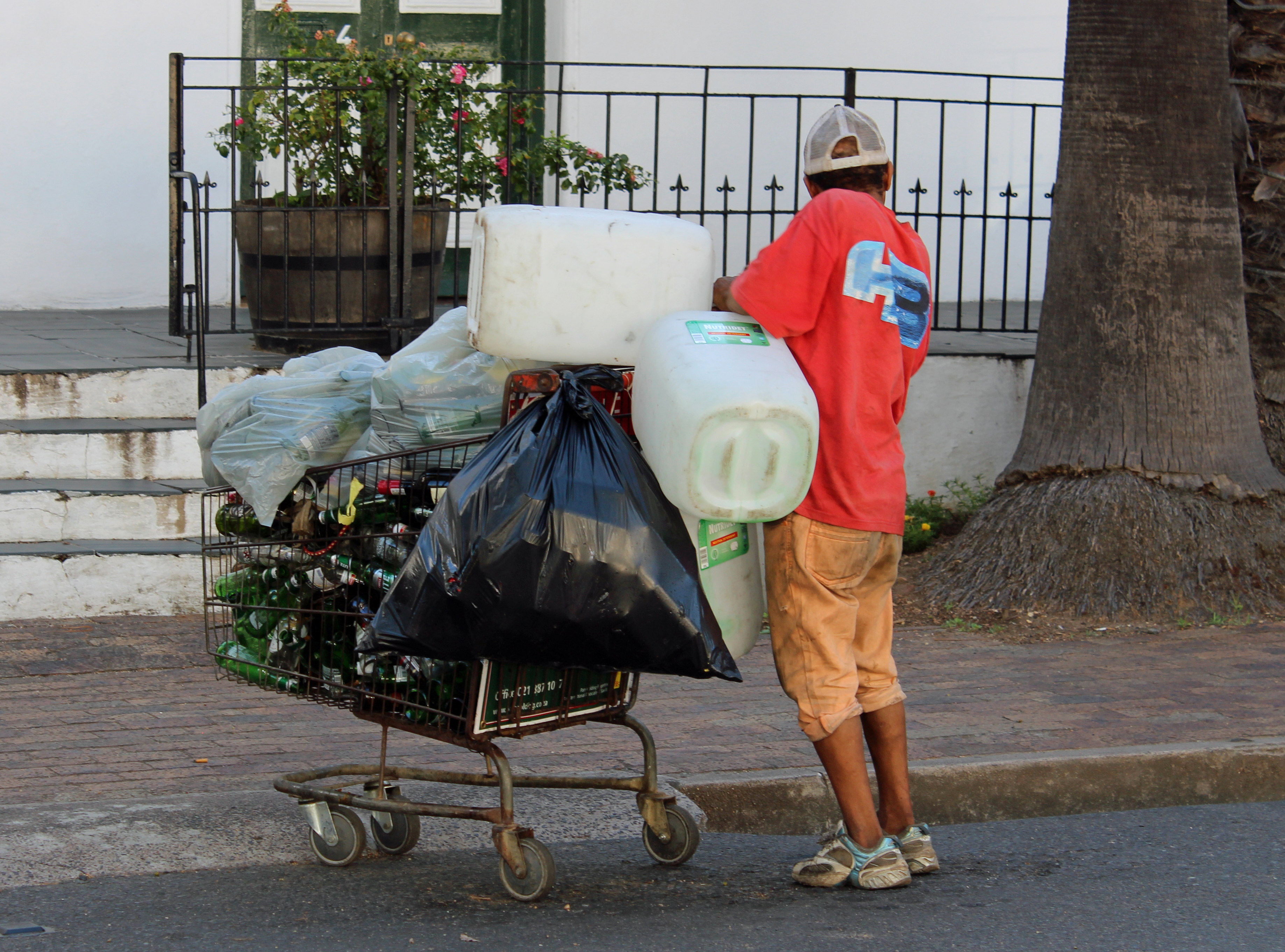 Bergie (homeless person) collecting recyclables outside Morkel House in Ryneveld Street, Stellenbosch, South Africa